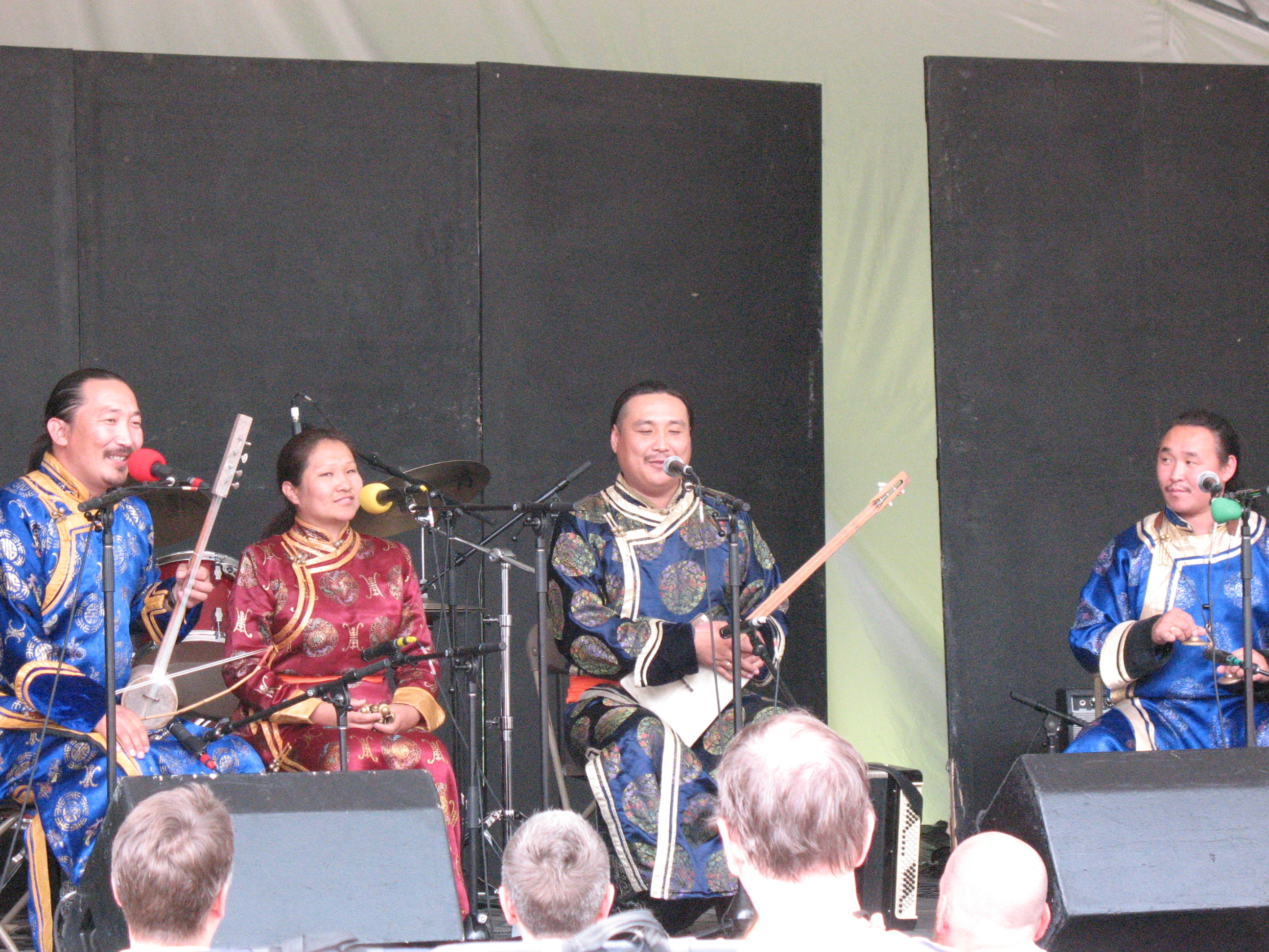 Chirgilchin performing at the 2007 Winnipeg Folk Festival at Birds Hill Park, Manitoba, Canada.